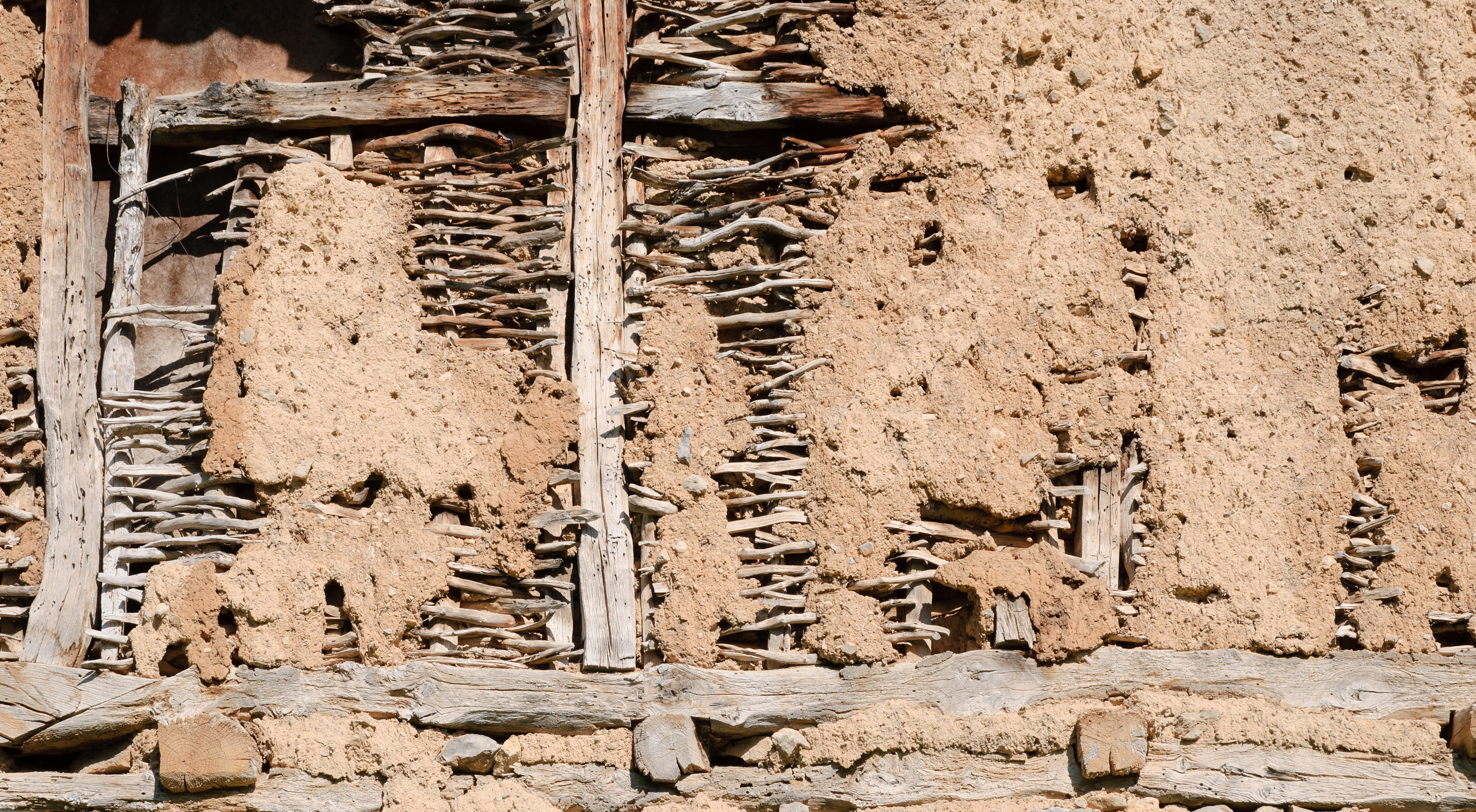 The old wattle and daub construction system found at the 19th century Razboishte monastery, Bulgaria.